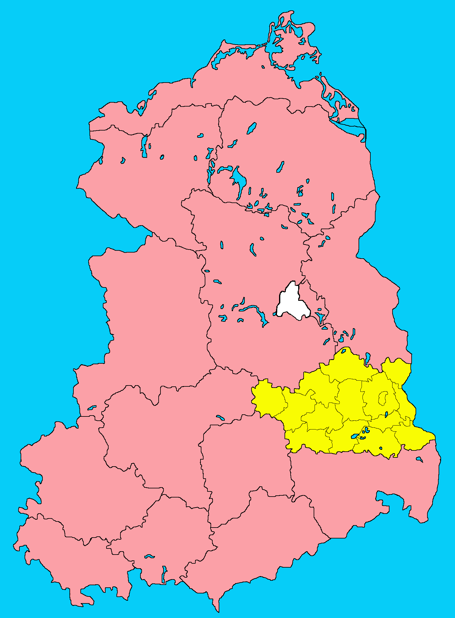 Map of the District of Cottbus in the German Democratic Republic (East Germany). The districts existed between 1952 and 1990. Most of the district's area belongs now to the State of Brandenburg.